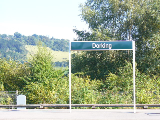 Dorking Station Dorking's station on the Horsham - London line. In the background is local beauty spot, Box Hill.